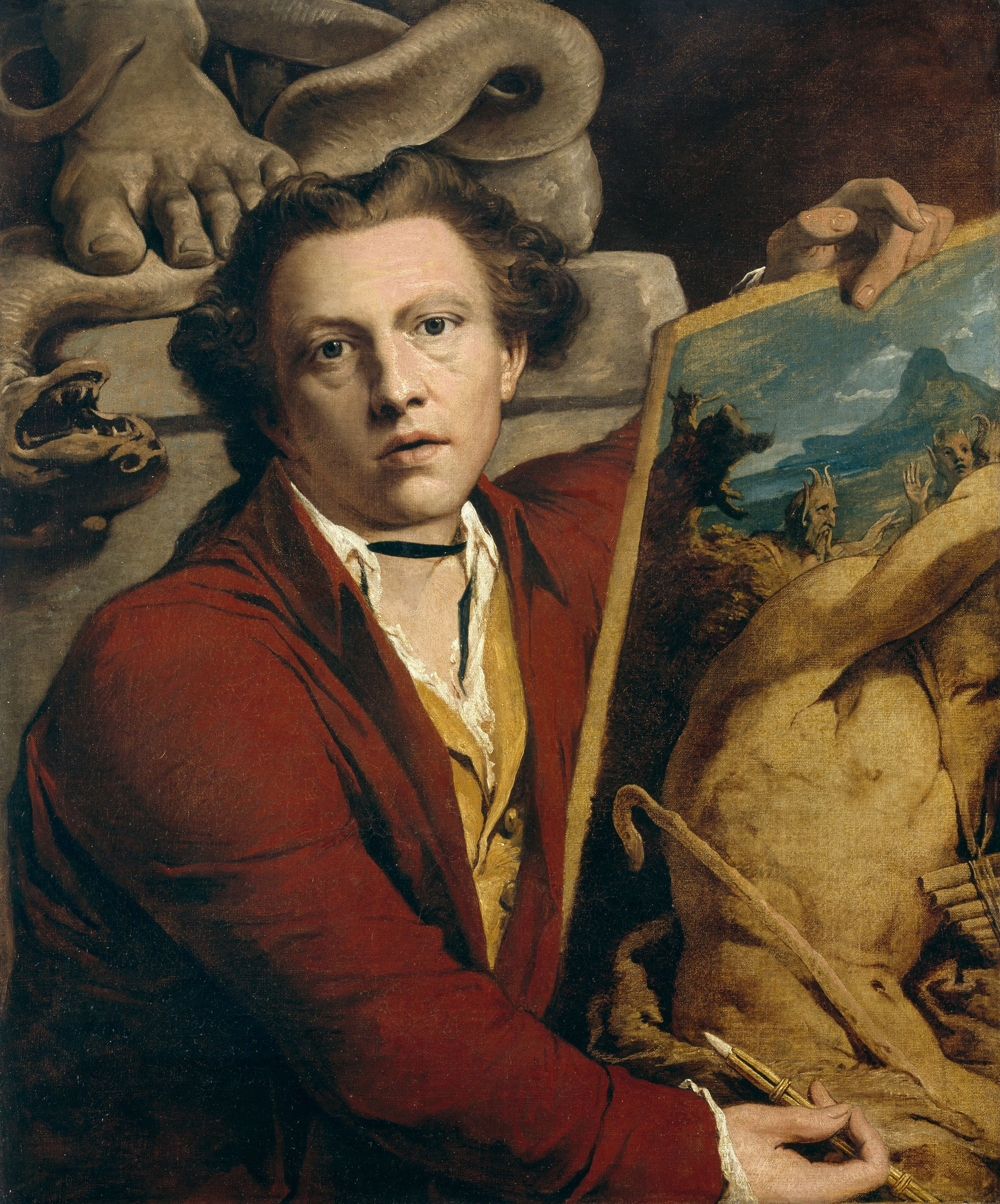 James Barry, self-portrait as Timanthes